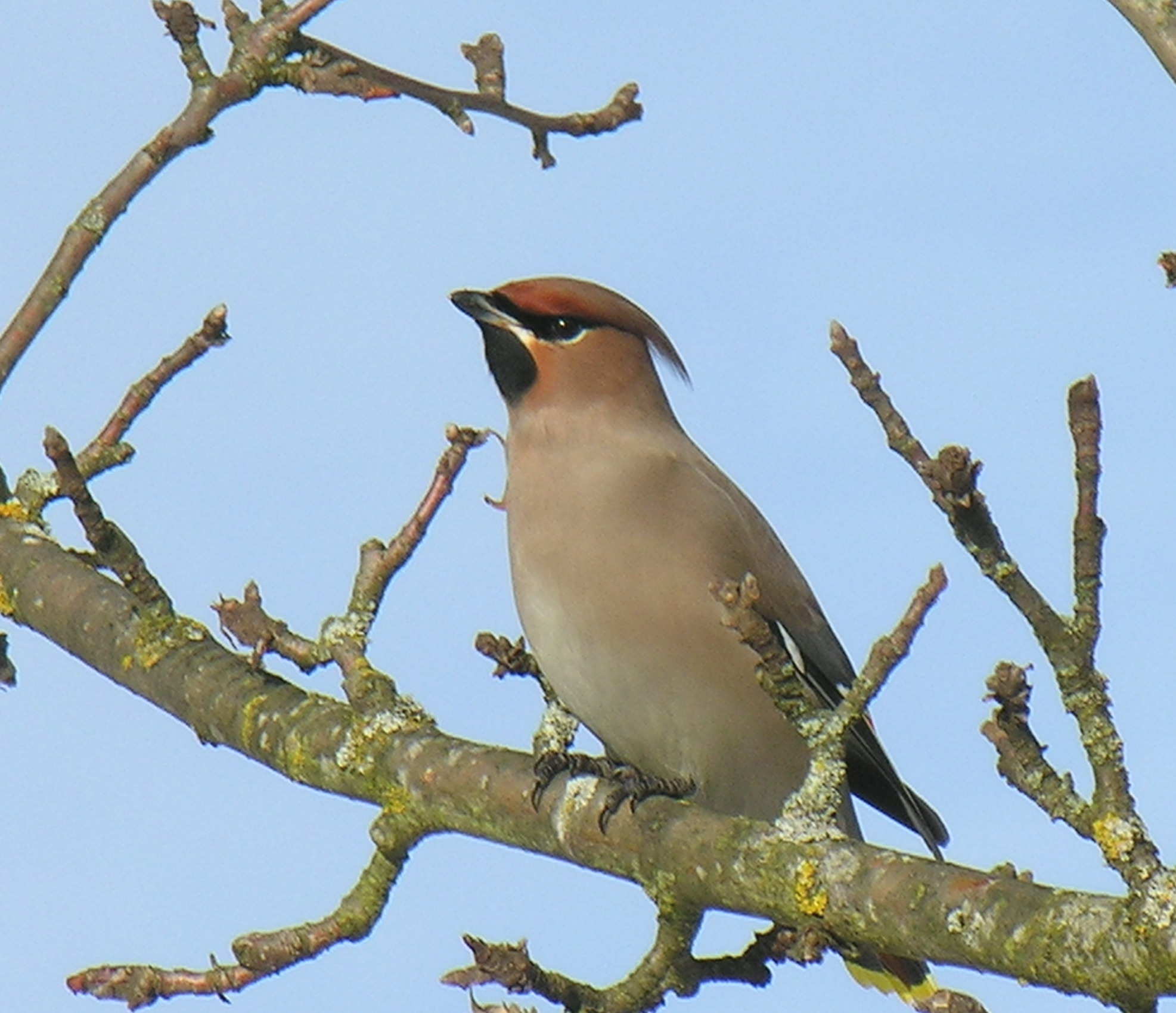 Bombycilla garrulus Fam. Bombycillidae Photographed by Algirdas, 12 02 2006, Lithuania